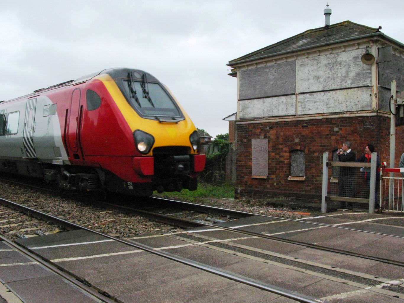 CrossCountry's 221115 speeds past the disused signal box at Stoke Canon on the Bristol to Exeter main line in Devon, England.